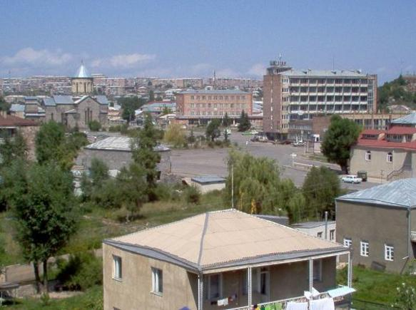 Gavar, the main church of the Holy Mother of God